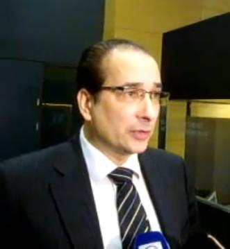 Finnish lawyer Heikki Lampela. Cropped from a screenshot of a video.